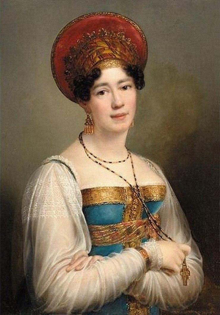 Portrait of Sophia Petrovna Svechina (1782—1857) - an outstanding Russian woman of her time, a daughter of state secretary of the Empress Catherine II, a lady-in-waiting, writer, mistress of the famous literary salon in Paris, took a special place among Russian Catholics.